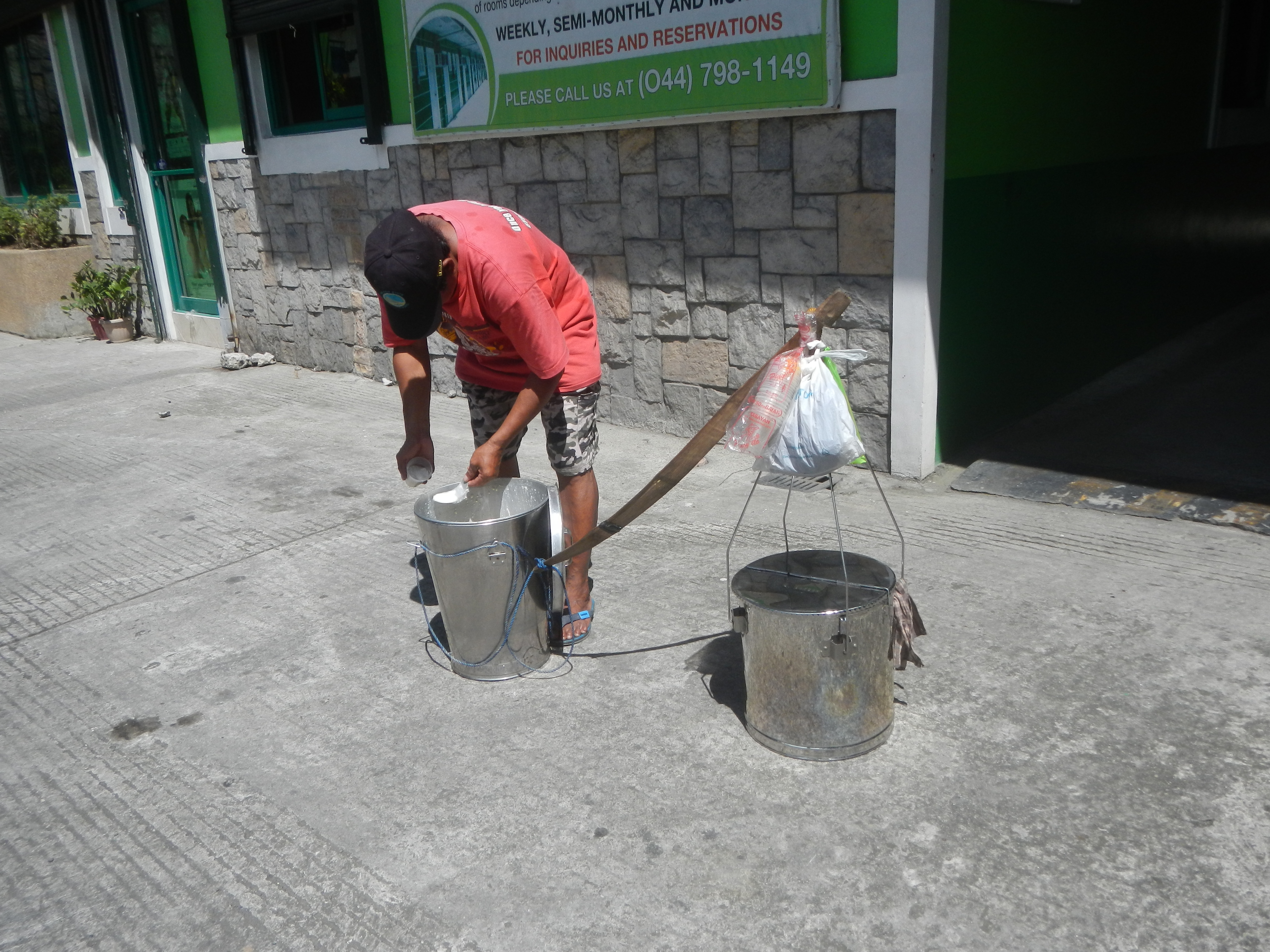 Taho Taho street vendors in the Philippines photos taken in Barangay Poblacion 14°57'17"N 120°54'2"E Baliuag, Bulacan, Bulacan province (Note: Judge Florentino Floro, the owner, to repeat, Donor Florentino Floro of all these photos Judge Floro hereby donate gratuitously, freely and unconditionally all these photos to and for Wikimedia Commons, exclusively, for public use of the public domain, and again without any condition whatsoever).